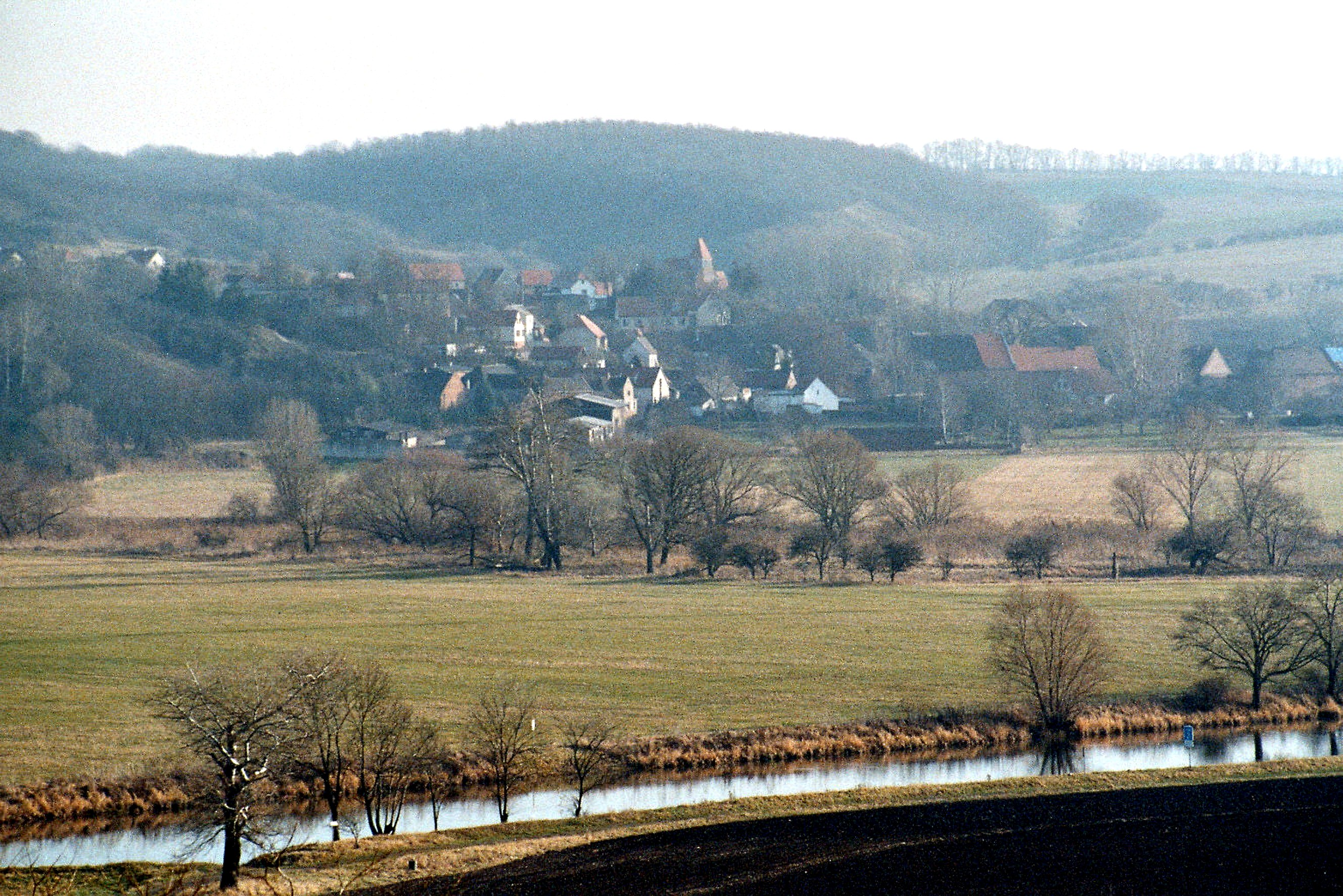 Dobis (Wettin) - view from the Friedeburg castle to the village Dobis and the river Saale